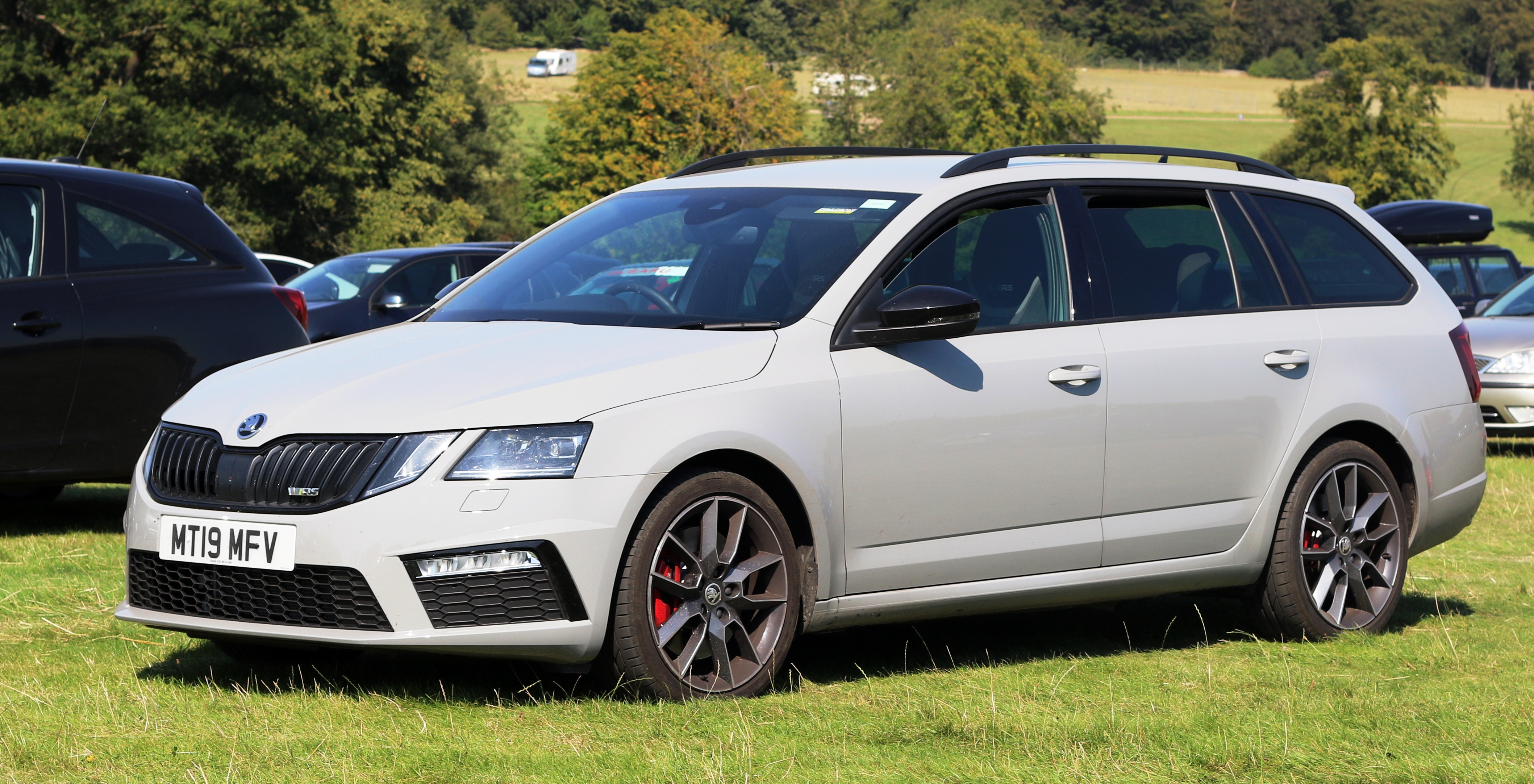 Škoda Octavia III Combi VRS 1984cc registered May 2019